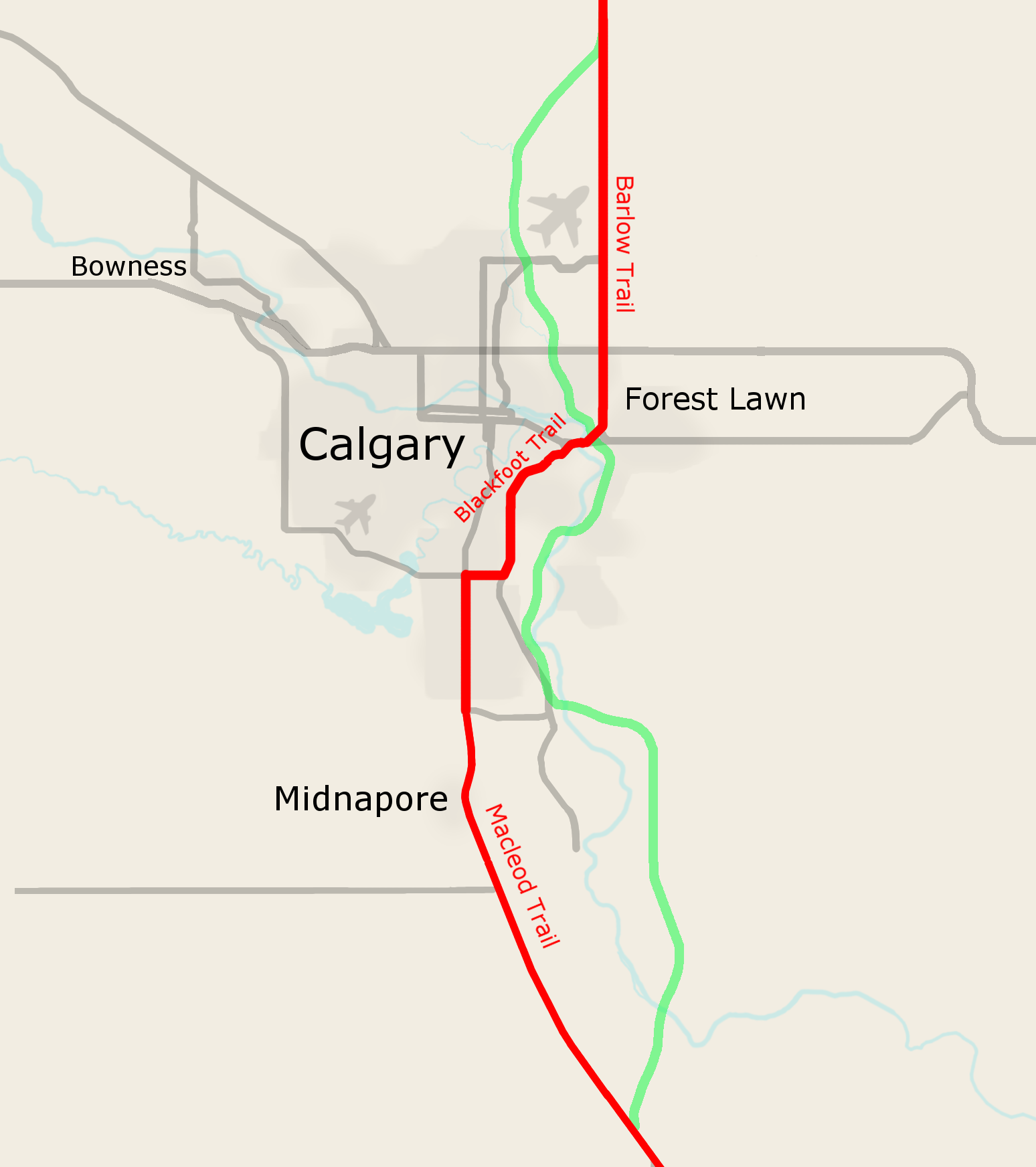 Outline of old Deerfoot Trail routing in north Calgary.